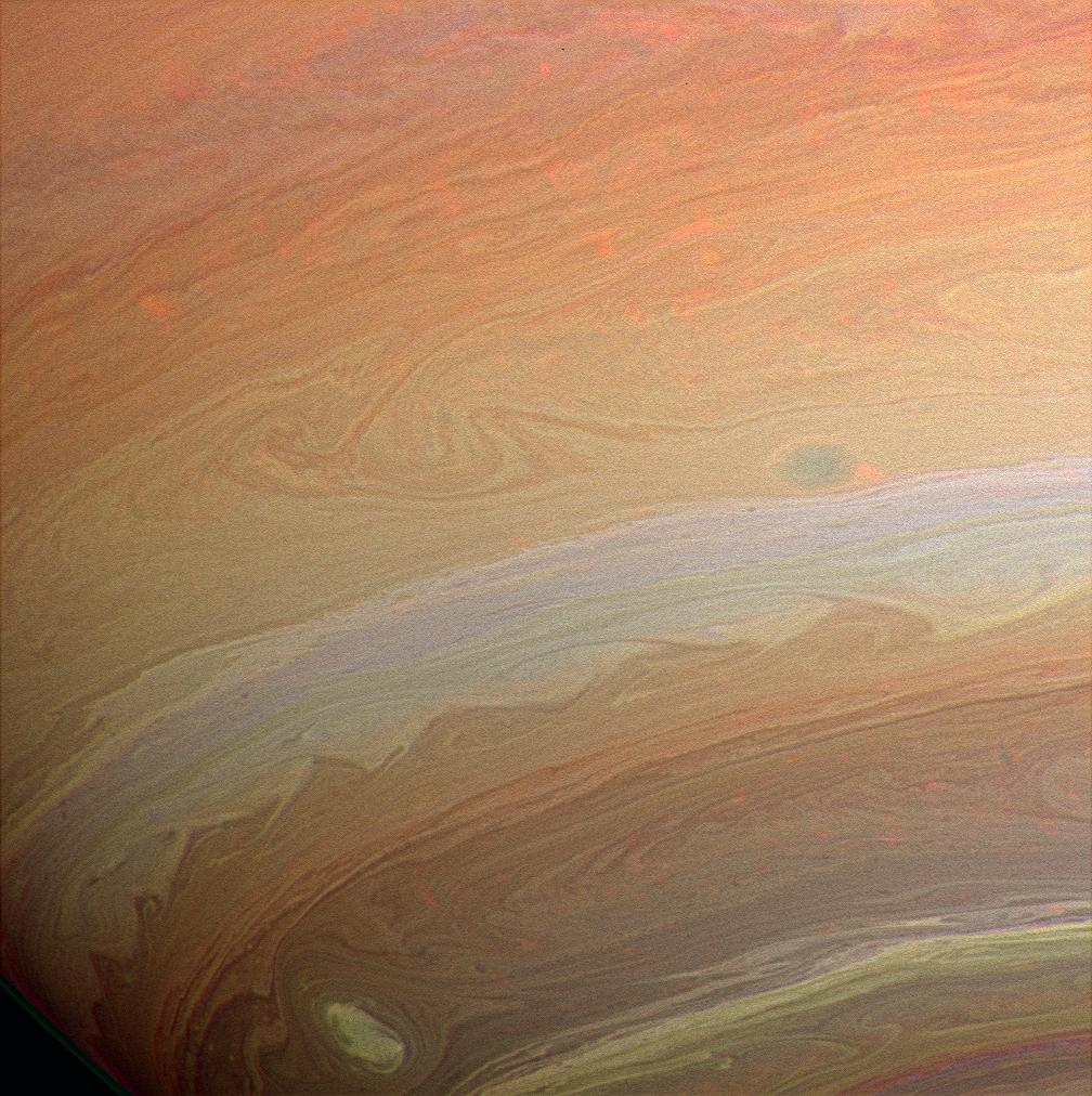 Saturn clouds caught by Cassini probe